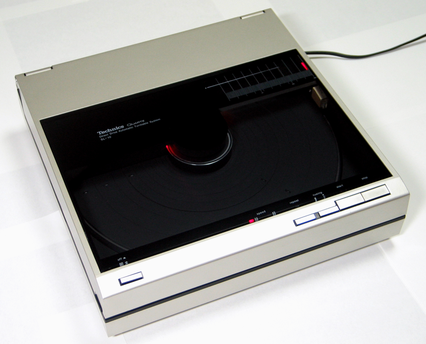 Picture of Technics SL-10, ser.DA26-04M182